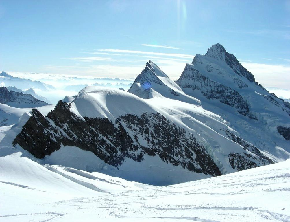 Agassizhorn (center) and Finsteraarhorn